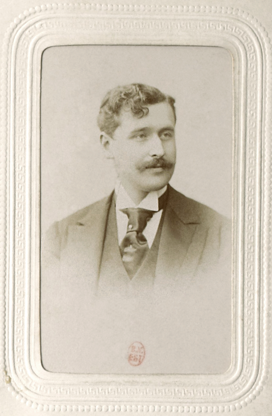 Georges Feydeau (1862 - 1921), french playwright.